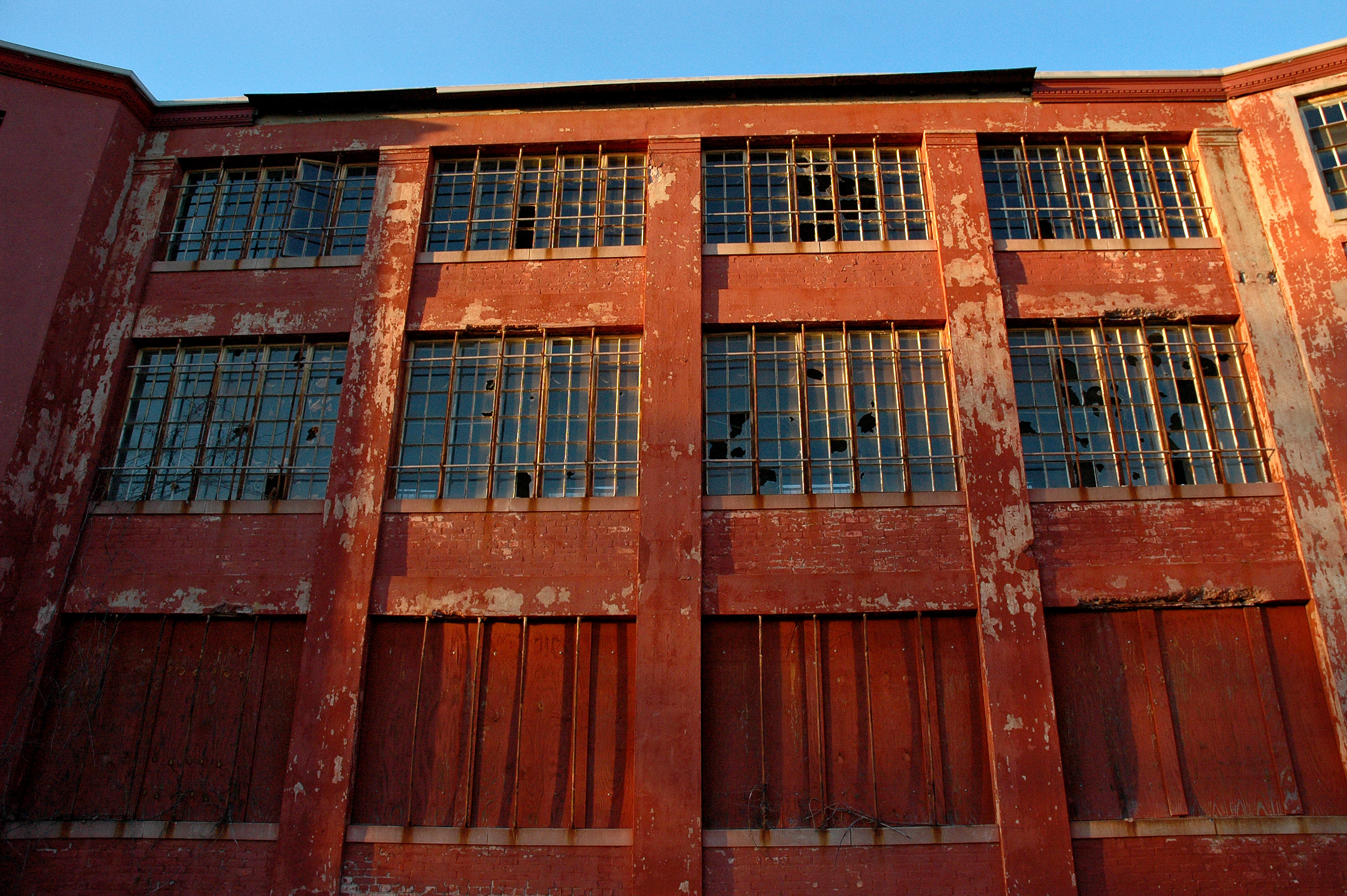 at the abandoned northampton state hospital, northampton, ma.